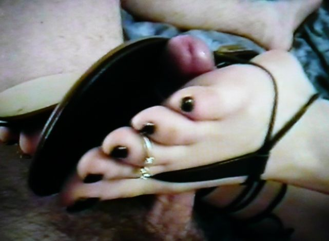 Didi performing a sandaljob